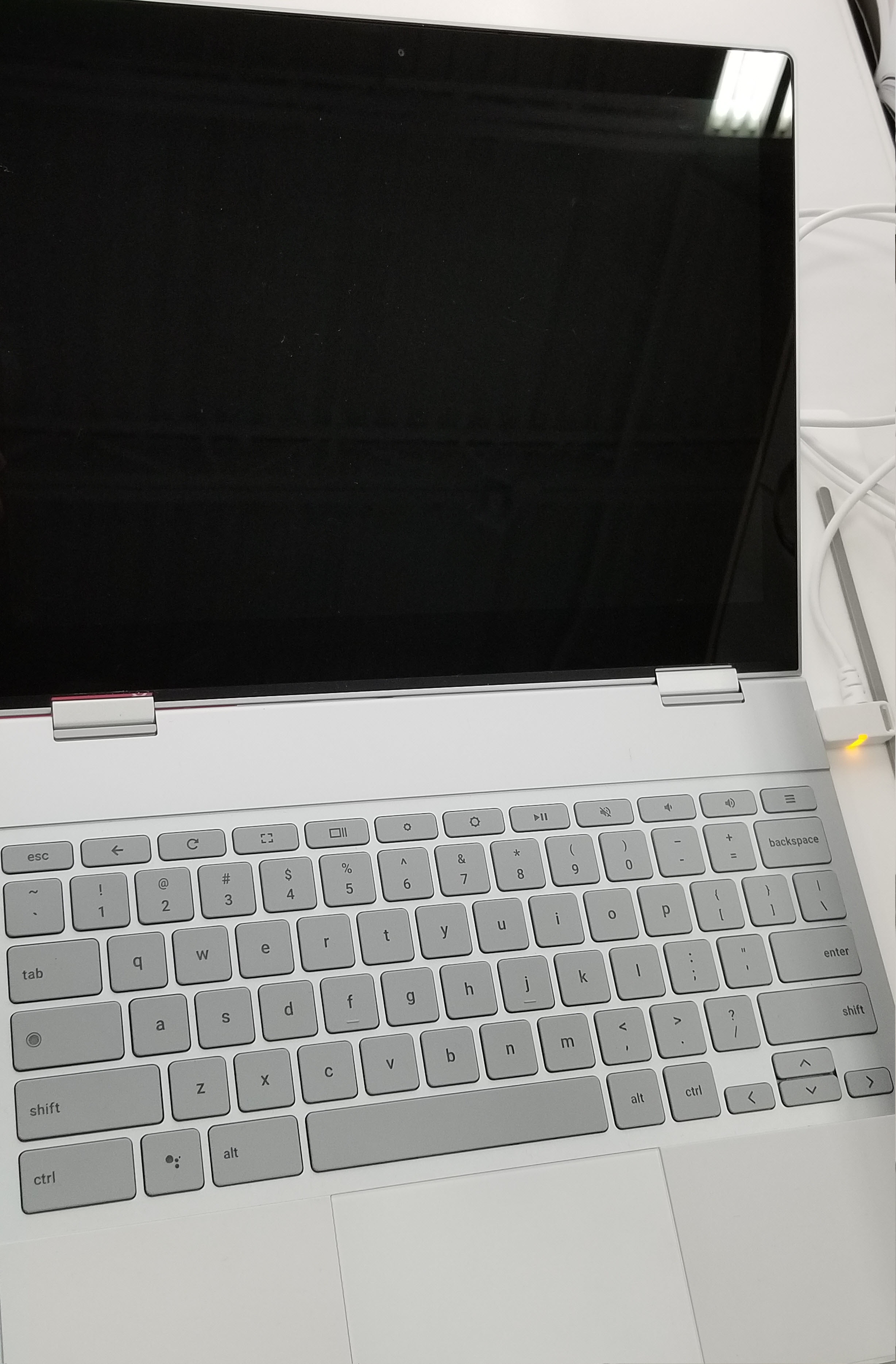 This is Google's Pixelbook that was released in 2017